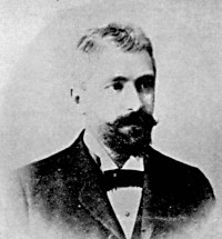 Italian chemistry Giacomo Ciamician